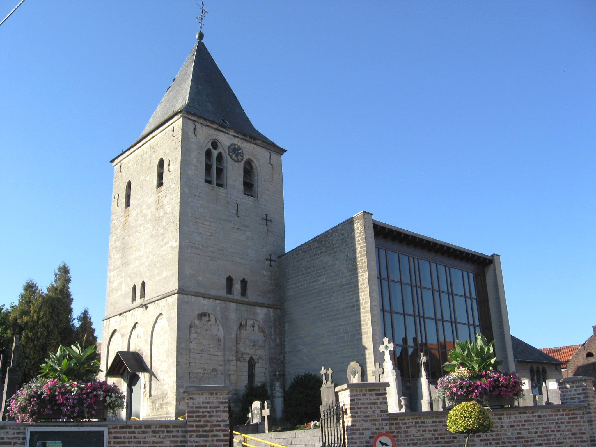 Church of Saint Hubertus in Sint-Huibrechts-Hern, Hoeselt, Limburg, Belgium